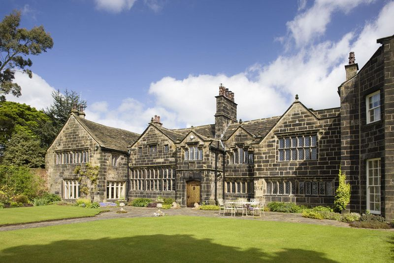 Royd Hall Manor